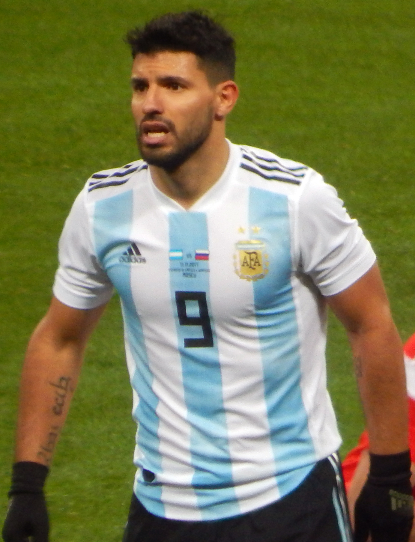 A friendly match between Russia and Argentina in Moscow, Luzhniki stadium, on November 11, 2017.